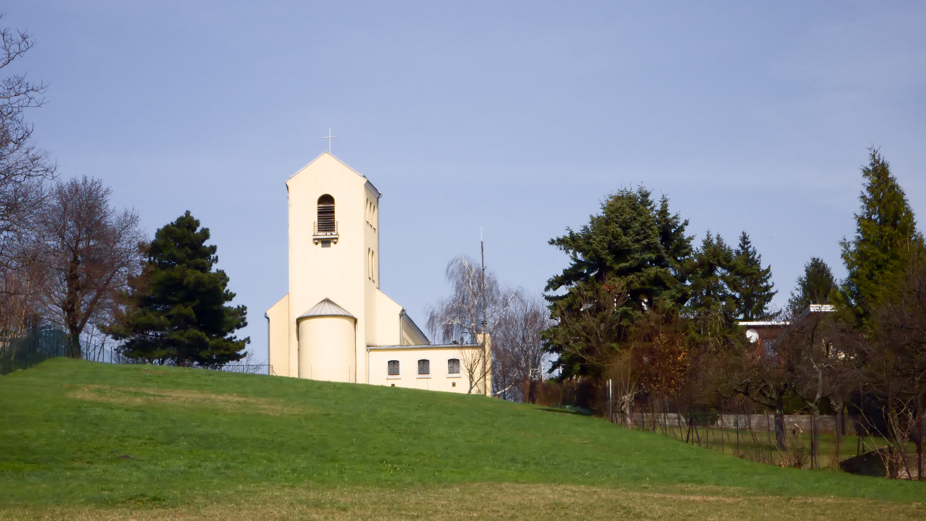 Schafbergkirche in Vienna Hernals